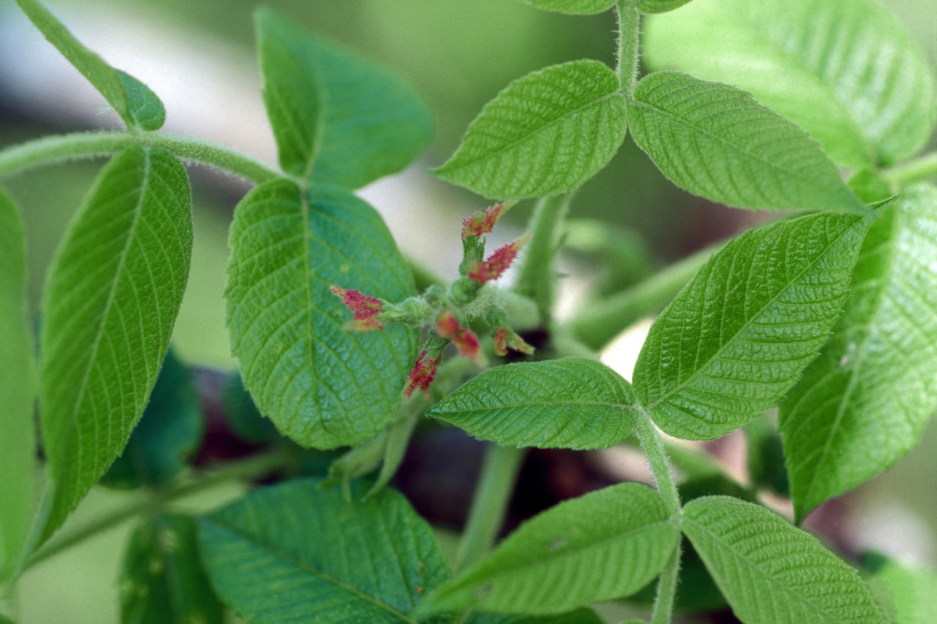 Juglans cinerea, young leaves and female catkins